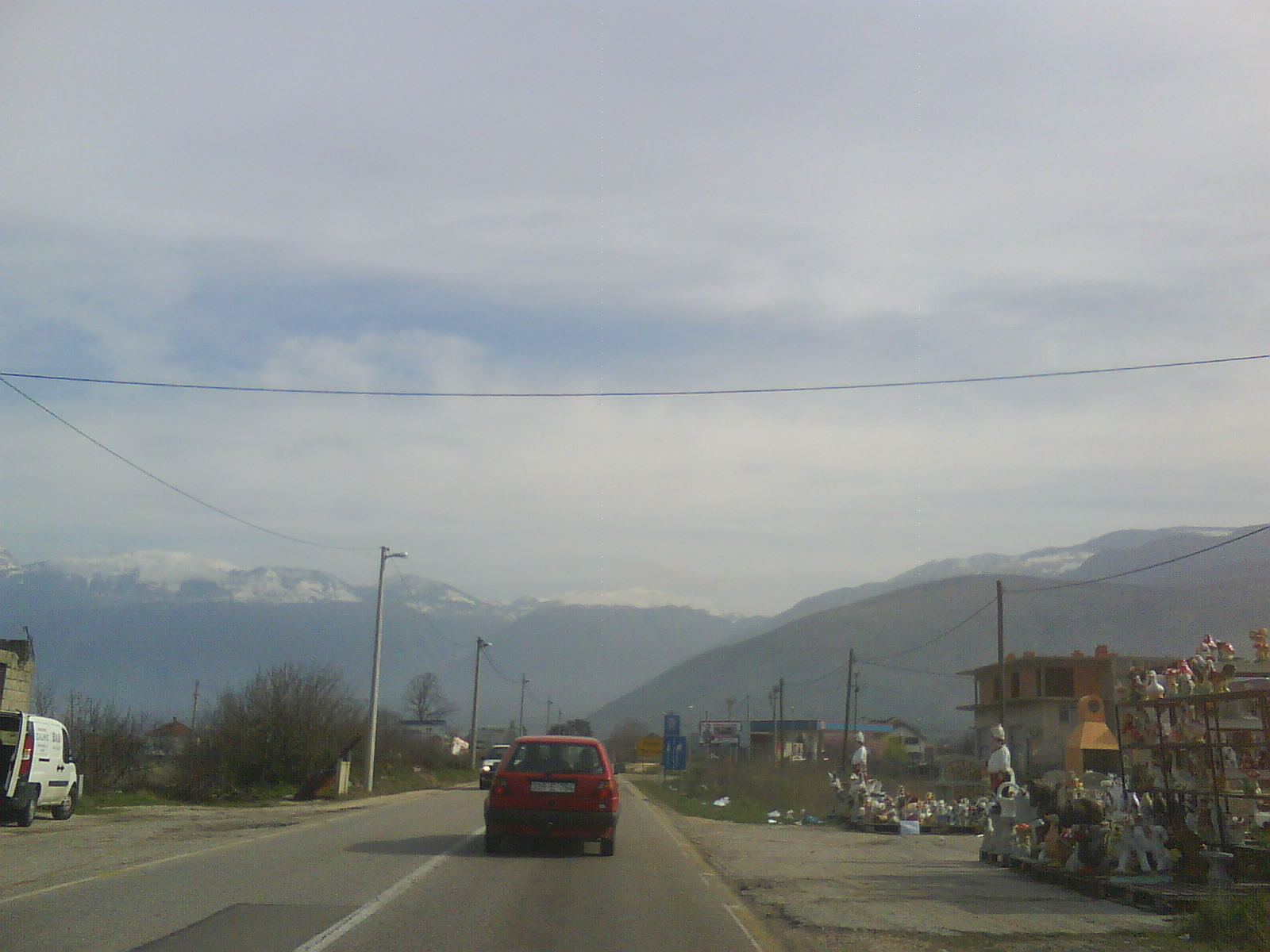 Village Potoci near Mostar